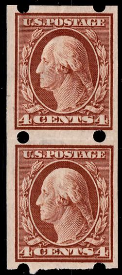 US Postage stamps w/ Brinkerhoff type IIa perforations